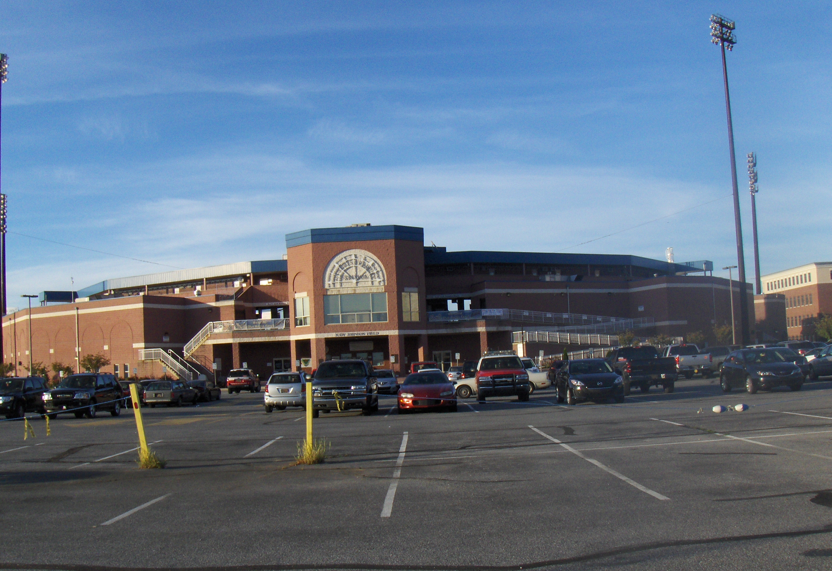 Frawley Stadium on the Christina Riverfront. The Wilmington Blue Rocks baseball team plays here on Judy Johnson field in Wilmington, Delaware.